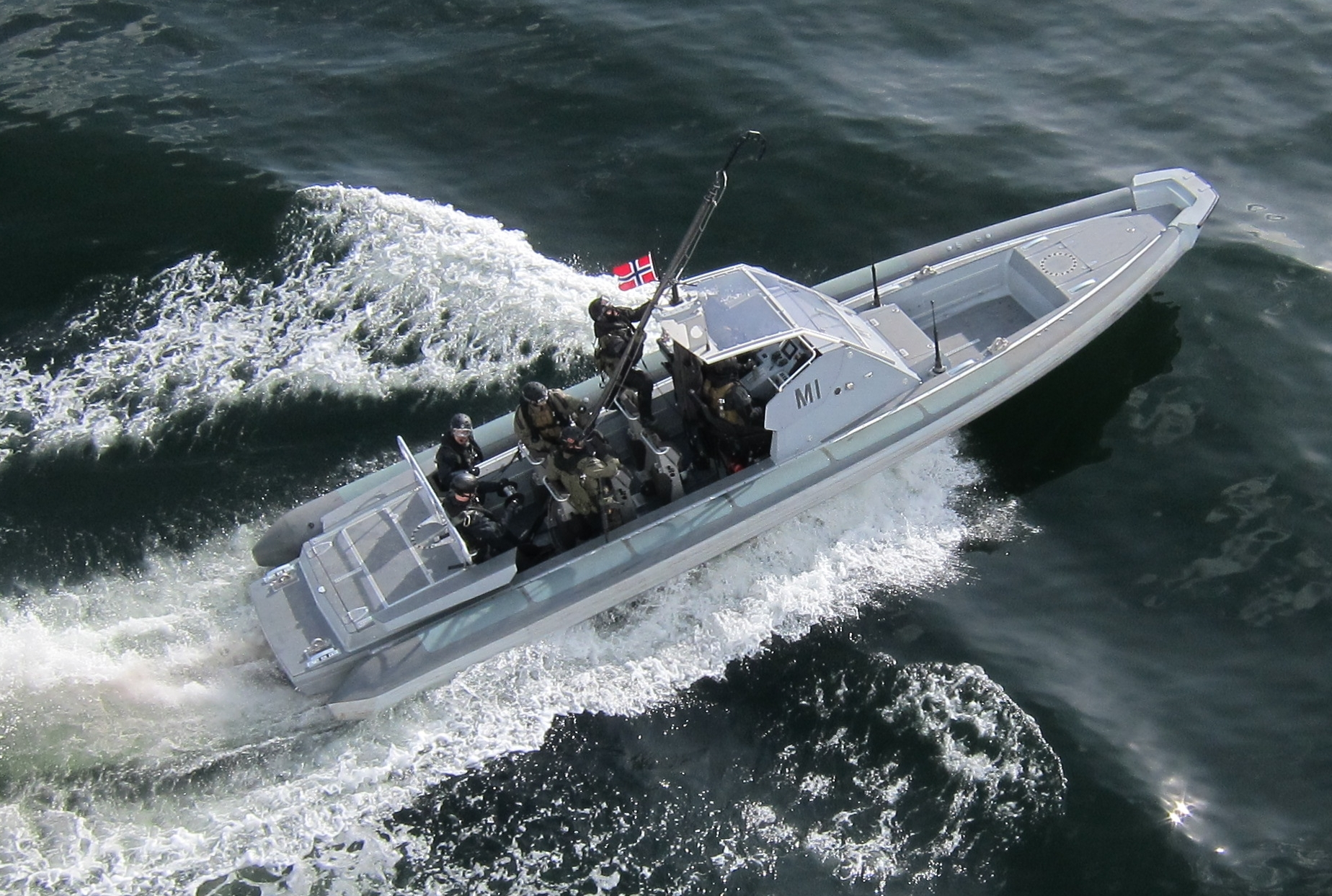 Forsvarets Spesialkommando (FSK, en. Armed Forces' Special Command) training in the Oslofjord on entering a passenger ferry with telescopic ladder.